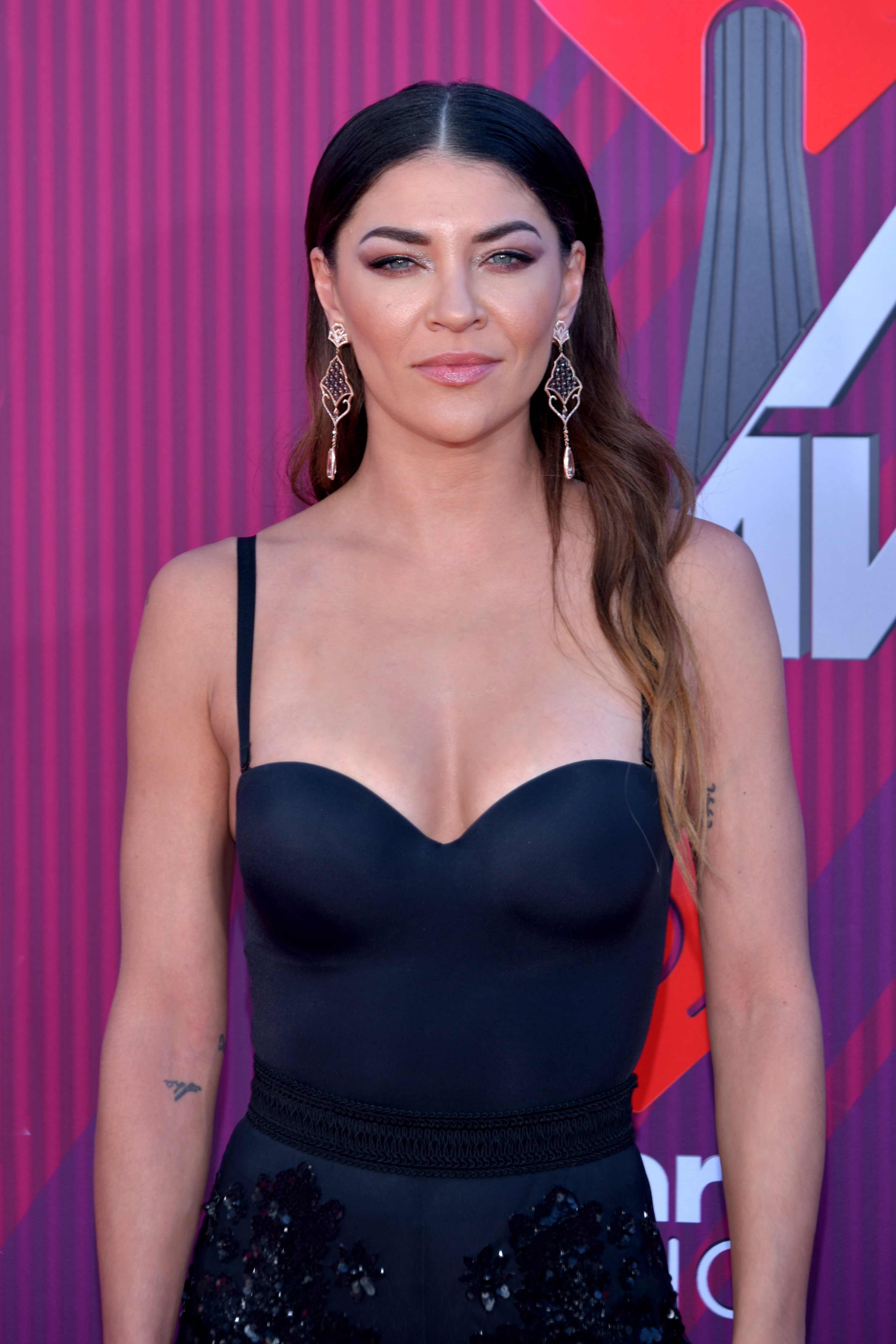 Jessica Szohr at the 2019 iHeartRadio Music Awards in Los Angeles California on March 14, 2019 - Photo by Glenn Francis of